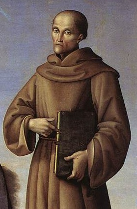 Saint Nicholas of Tolentino on the right side of the Madonna